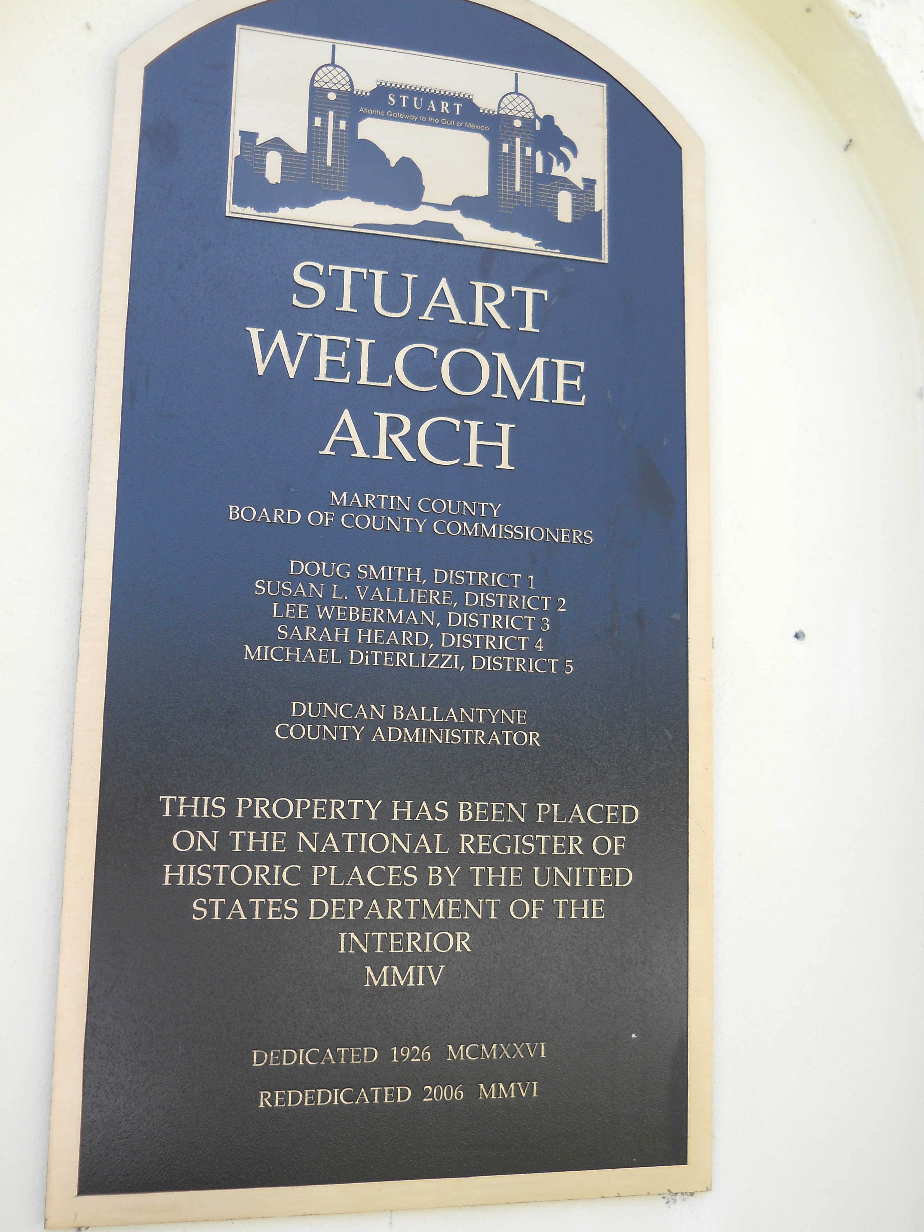 Stuart Welcome Arch on NE Dixie Highway, State Road 707, Jensen Beach, Florida: 2006 rededication plaque on the bottom of the south side of the west tower